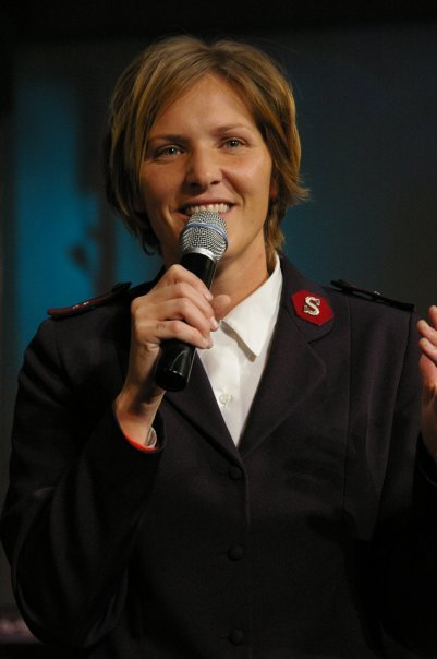 Captain Danielle Strickland preaching at a Salvation Army conference in the Australia Southern Territory.